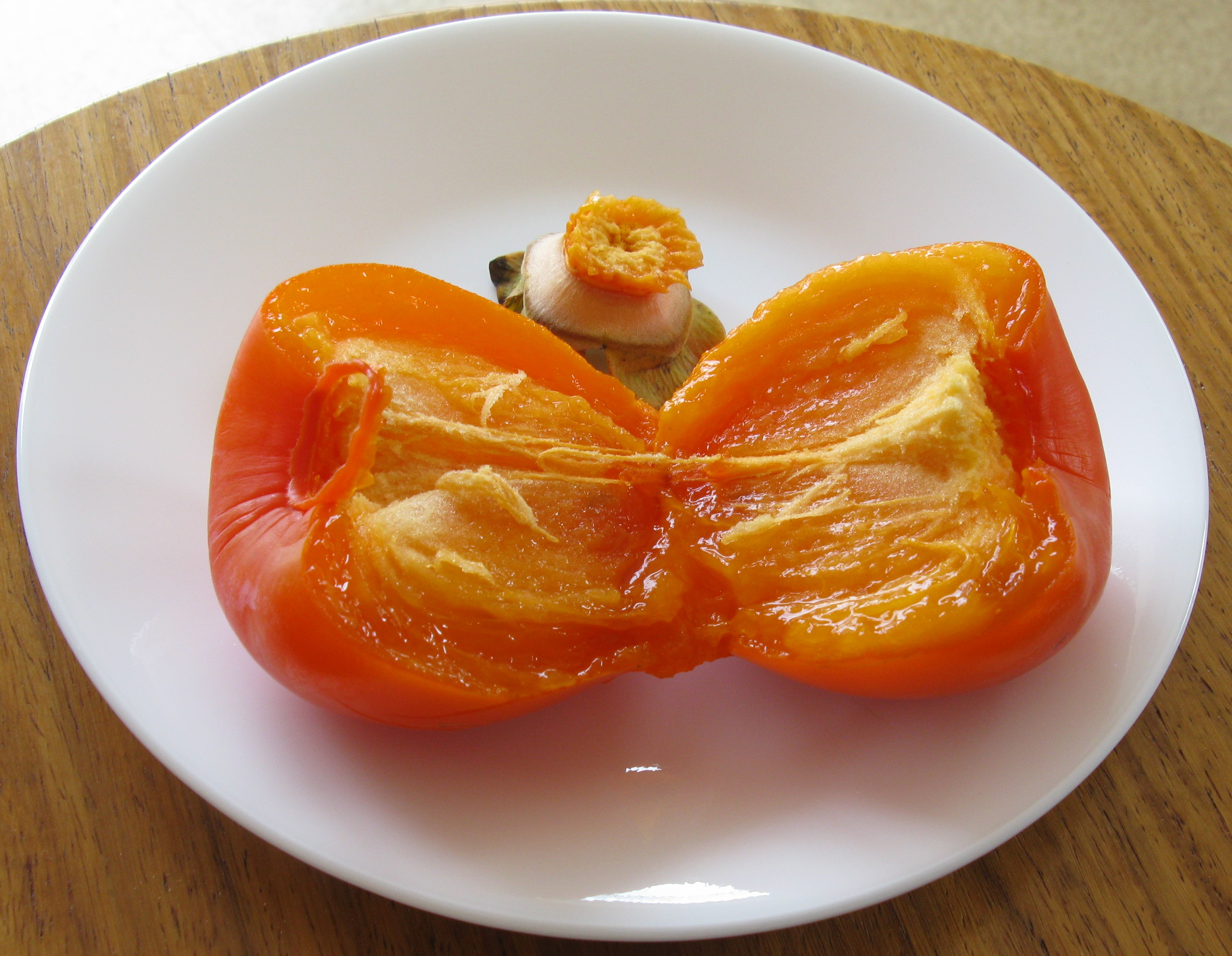 This is a properly sound, ripe fruit with its flesh soft enough to permit one to lift the calyx out cleanly and easily and split it for eating